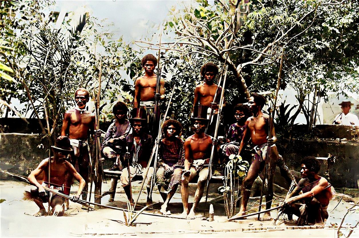 Negritos in the Philippines